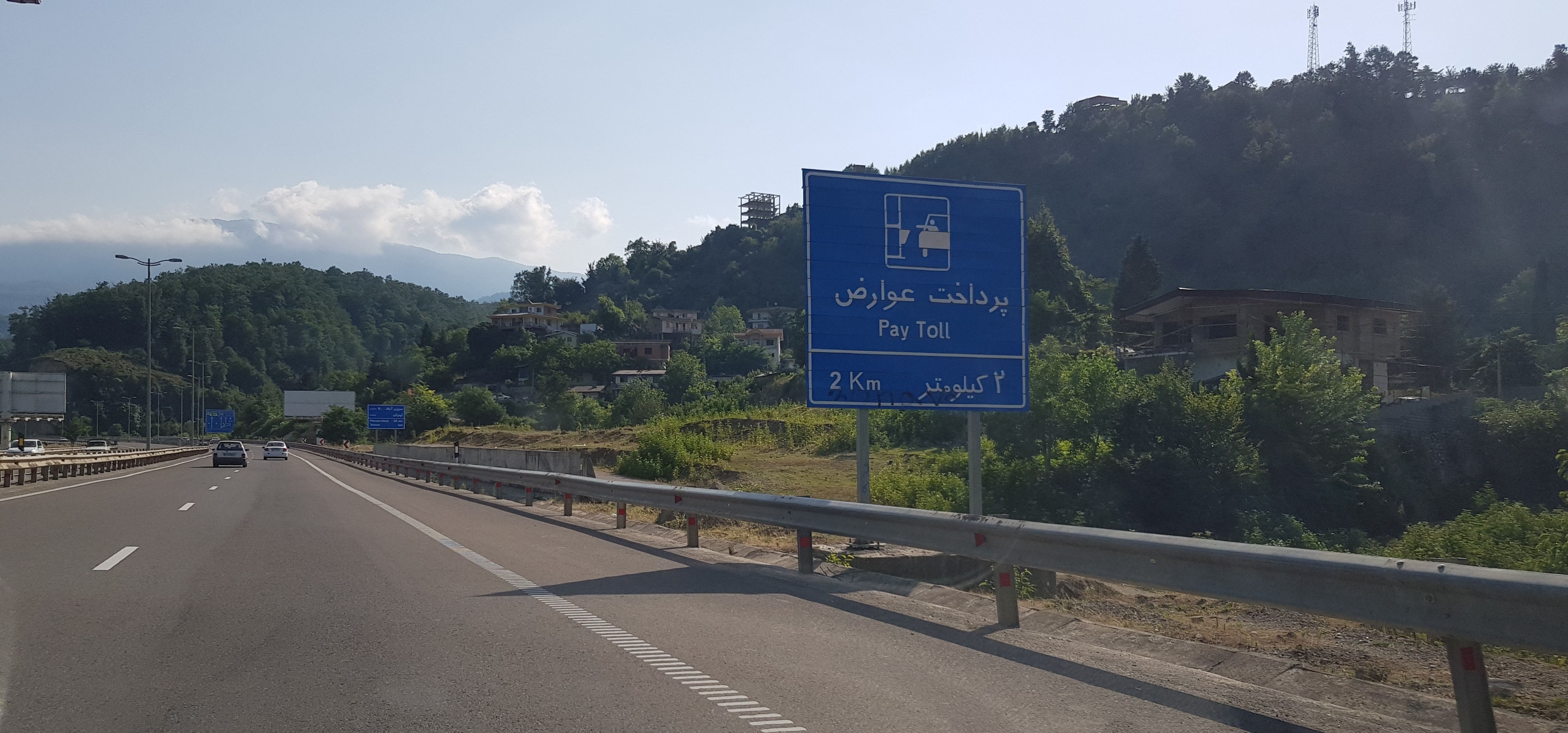 Tehran-Shomal Freeway